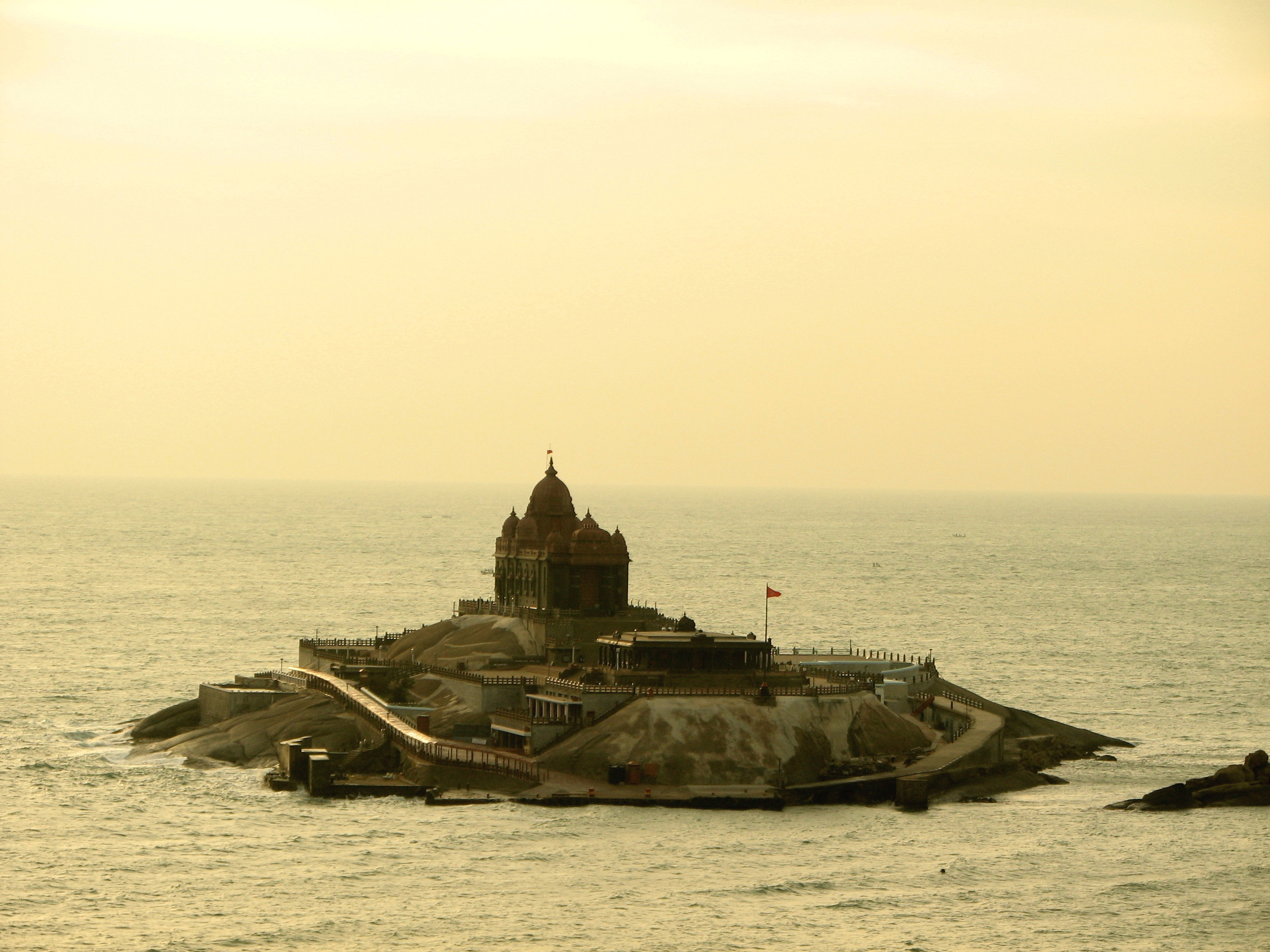 self-made photograph ; Author's Name : Infocaster